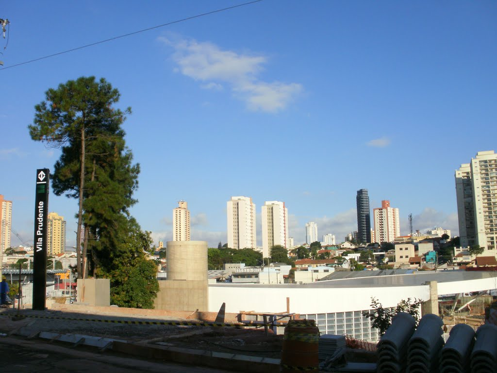 District of Vila Prudente, São Paulo, Brazil